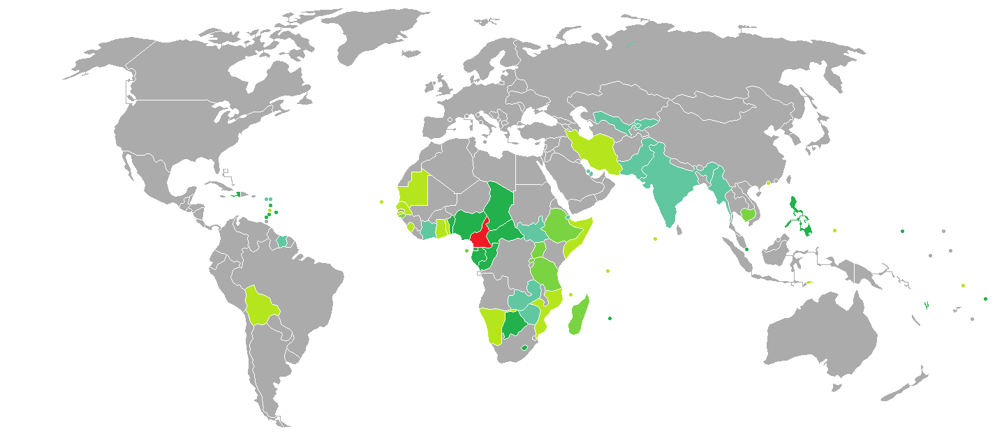 Visa requirements for Cameroonian citizens Cameroon Visa free access Visa on arrival eVisa Visa available both on arrival or online Visa required